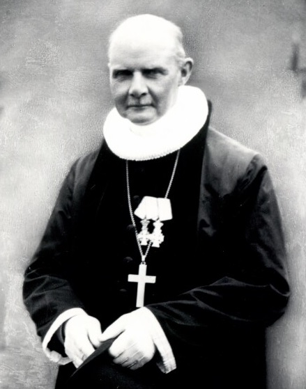 Valdemar Ammundsen, Bishop of Haderslev